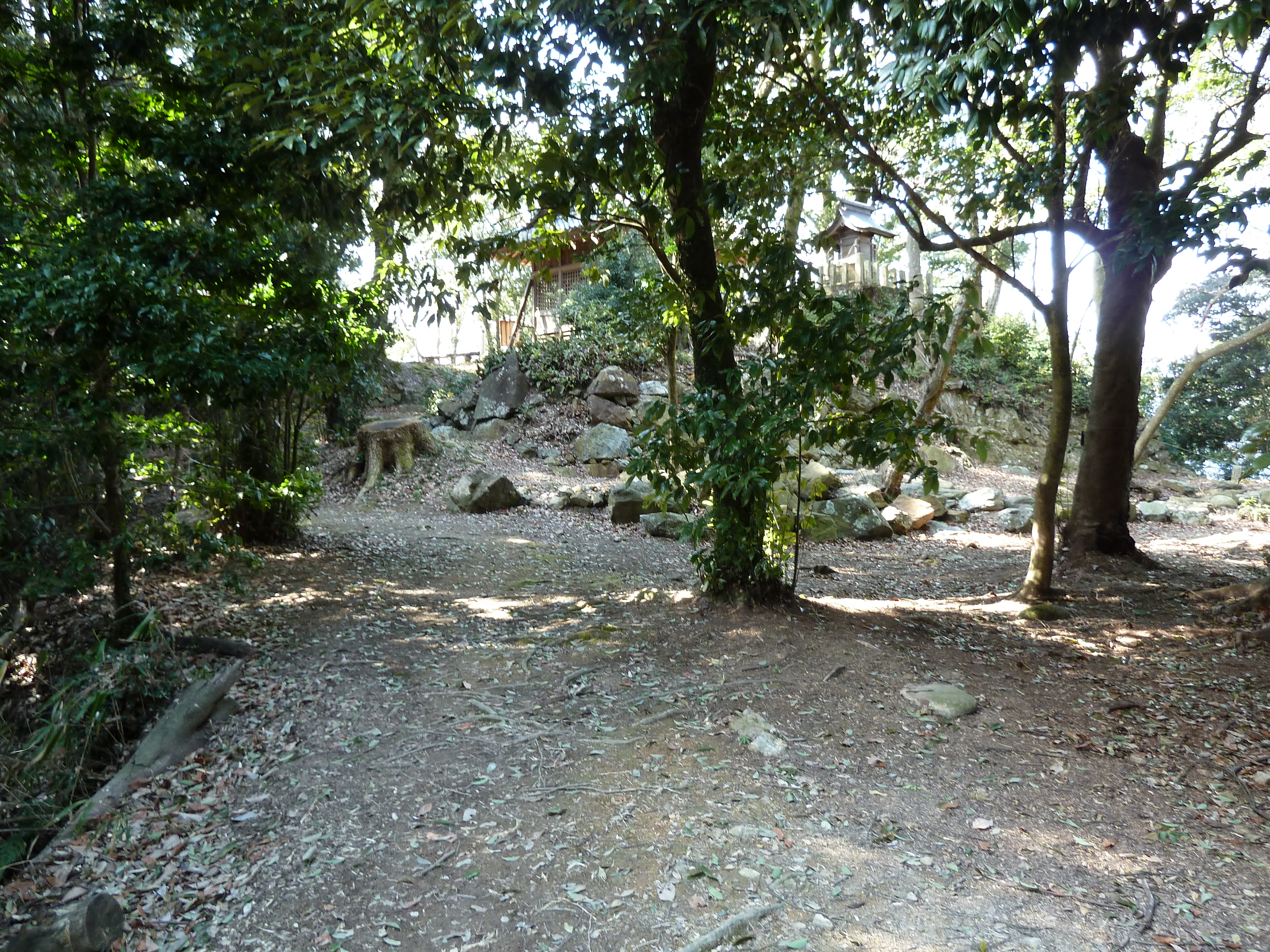 搦手門跡